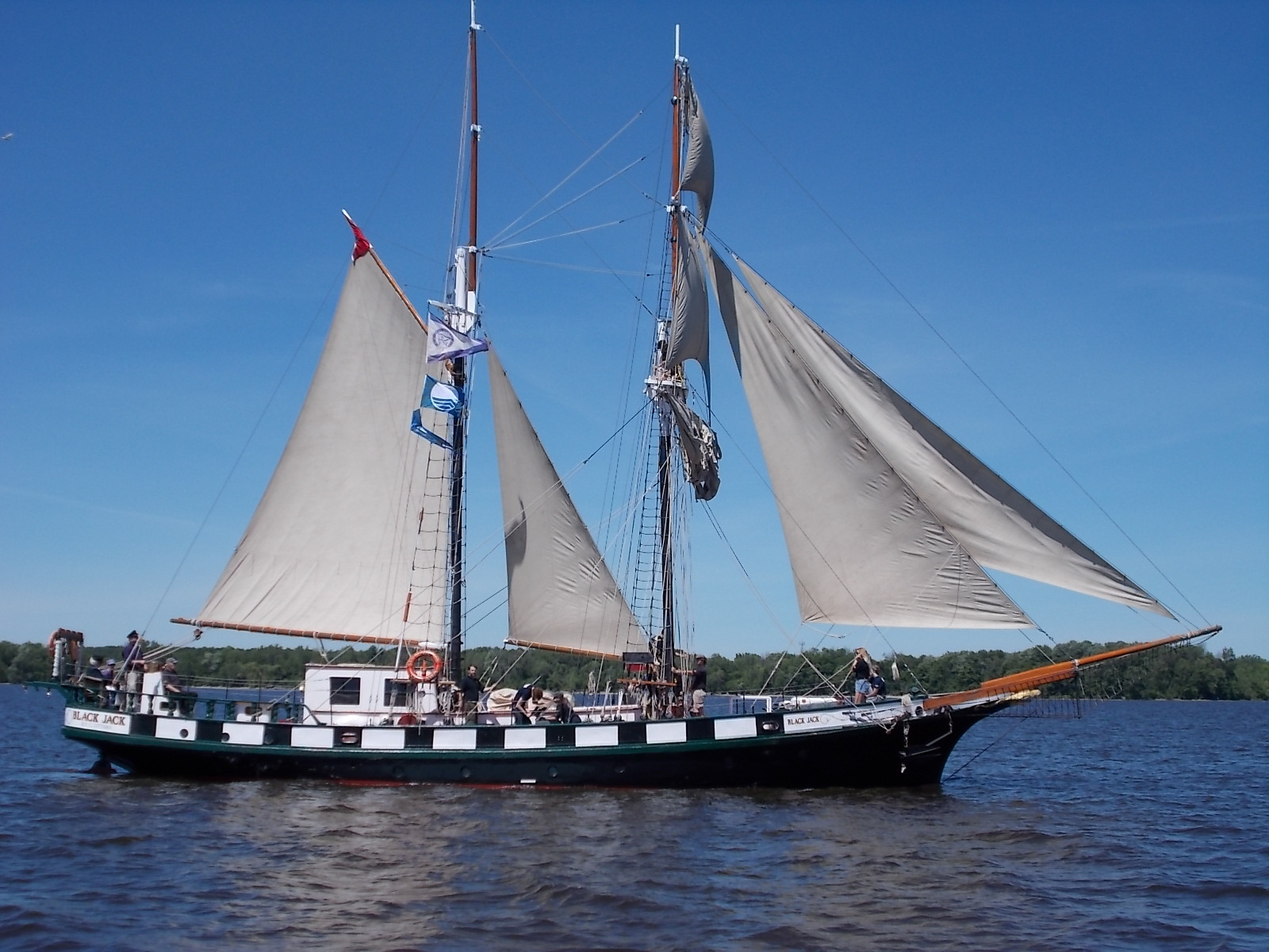 STV Black Jack on the Britannia Yacht Club's Commodore's Sail Past 2014.